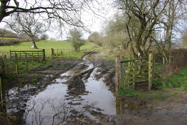 Former Railway near Llanerchaeron This muddy track was once the branch line to Aberaeron, opened in 1911. Passenger services lasted only 40 years, being withdrawn as early as 1951 although freight continued for a further 14 years.